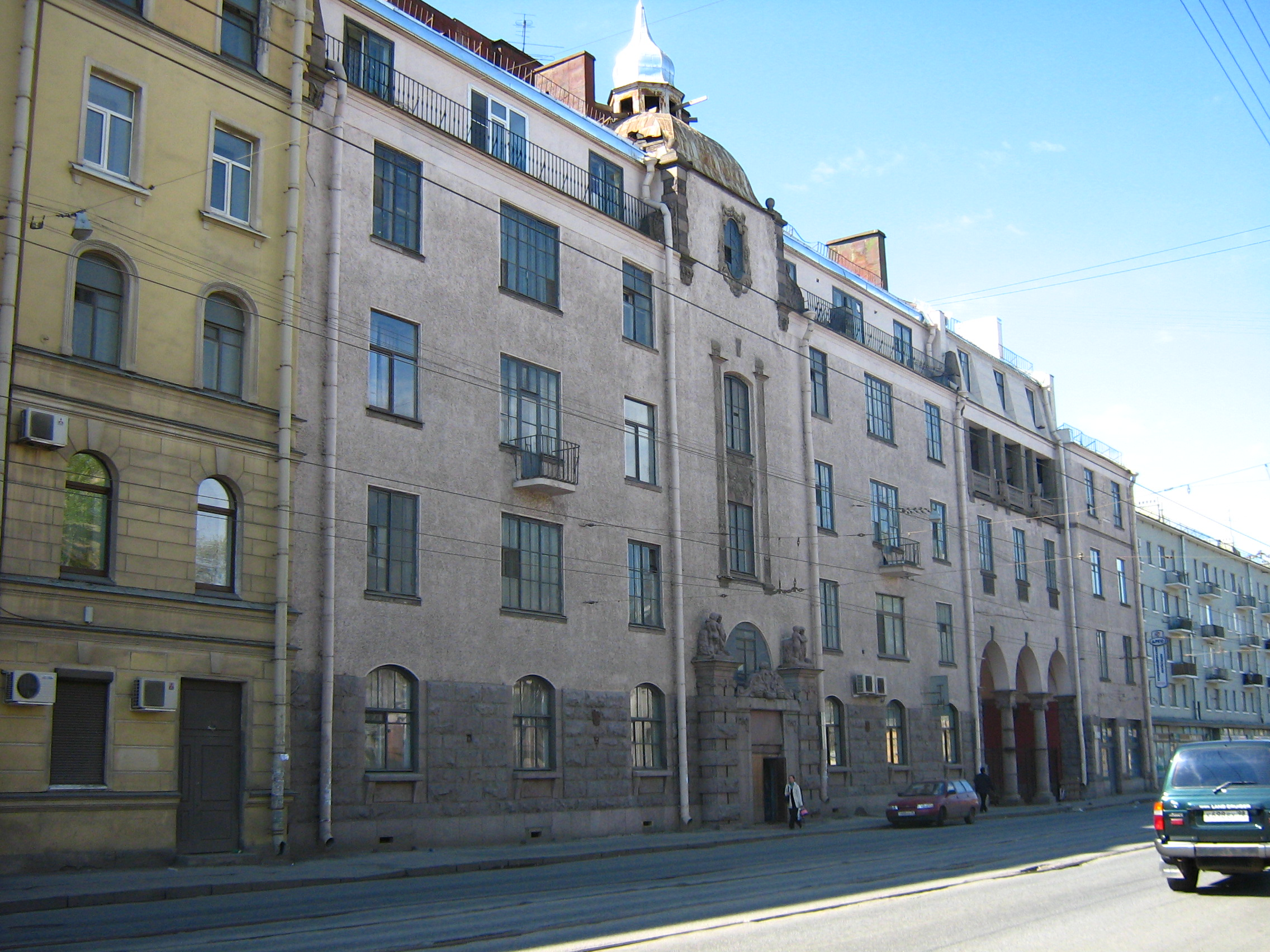 Lesnoy avenue, 20 (St.-Petersburg, Russia)